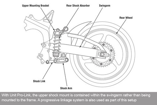 Sketch of the Honda Pro-Link suspension